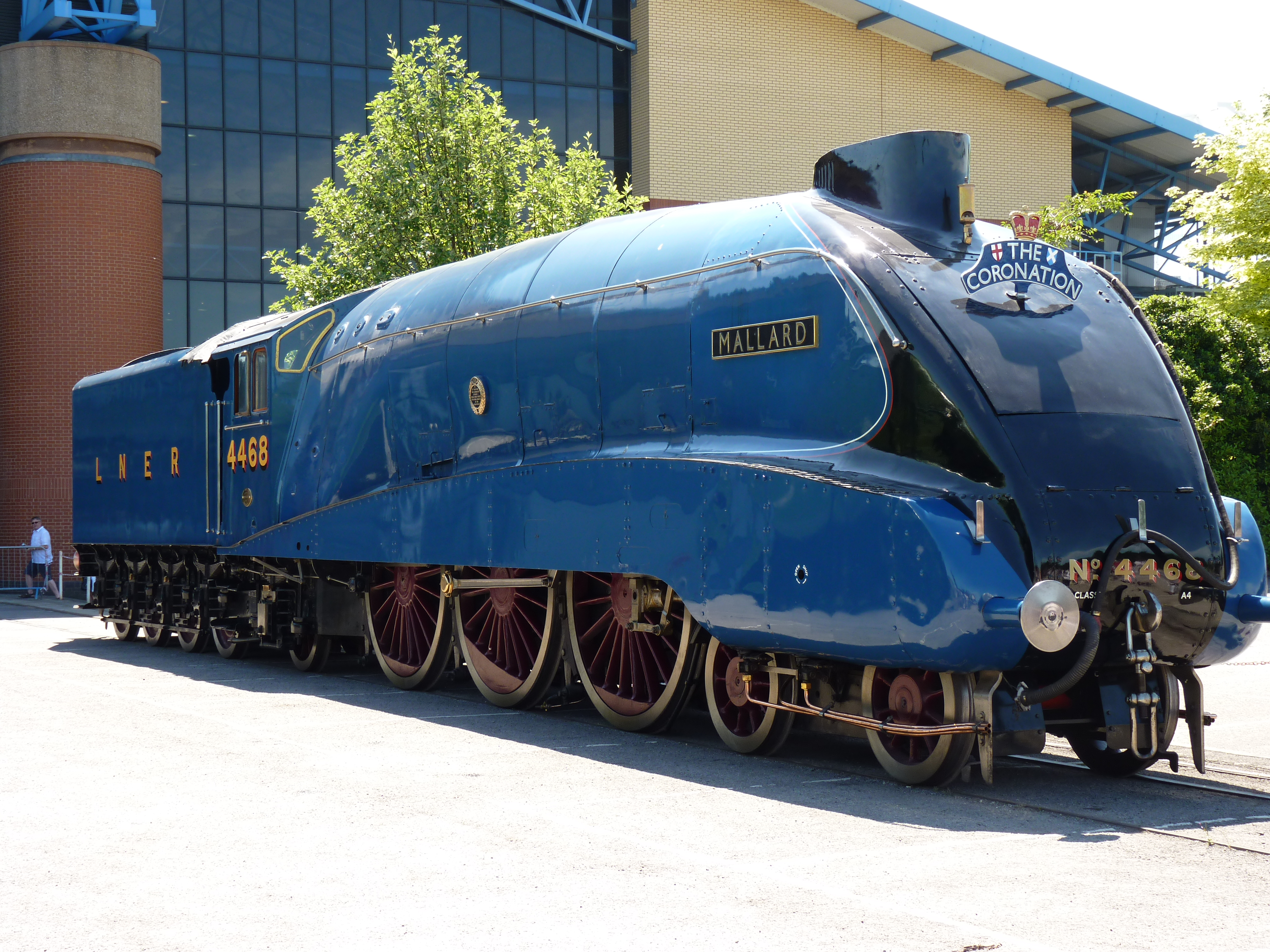 The famous speed record holding steam locomotive No. 4468 Mallard at the National Railway Museum in York. Having been a long term static exhibit here a few yards away inside the Great Hall, she is pictured here outside in the summer sun, on one of the two turntable access sidings on the north side of the hall. This venture outside was so she could be posed alongside new build steam locomotive No. 60163 Tornado (pictured in this image on the other siding). This was because the next day Tornado was to be given the honour of towing Mallard to the NRM's satellite site, the Shildon Locomotion Museum in County Durham. This would be first time Mallard would be seen on the main line for a number of years. See this image for a picture of the move taking place. She was returned to York over a year later on 19 July 2011, this time towed by No. 5972 Olton Hall (of Harry Potter fame).